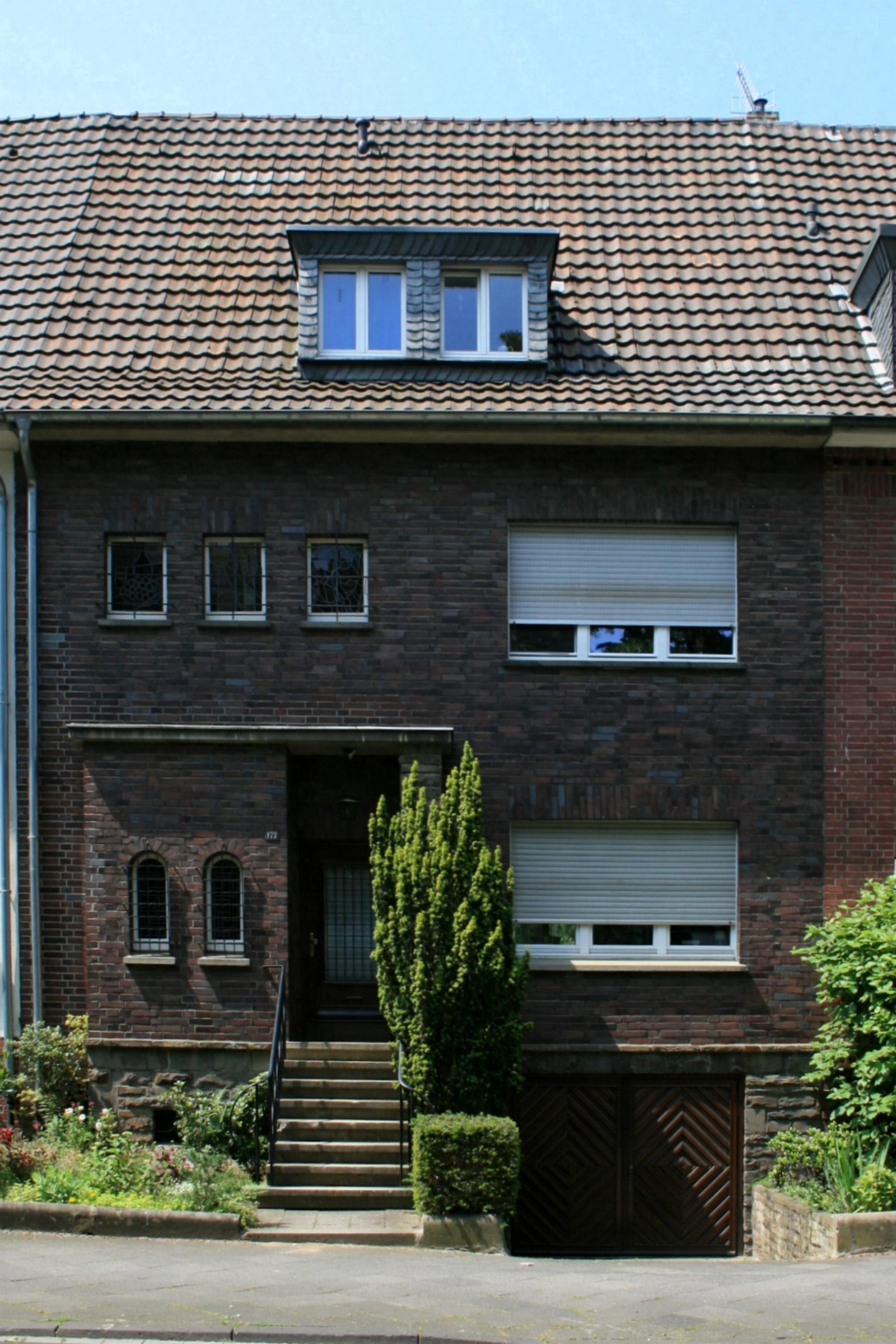 Cultural heritage monument No. B 114 in Mönchengladbach